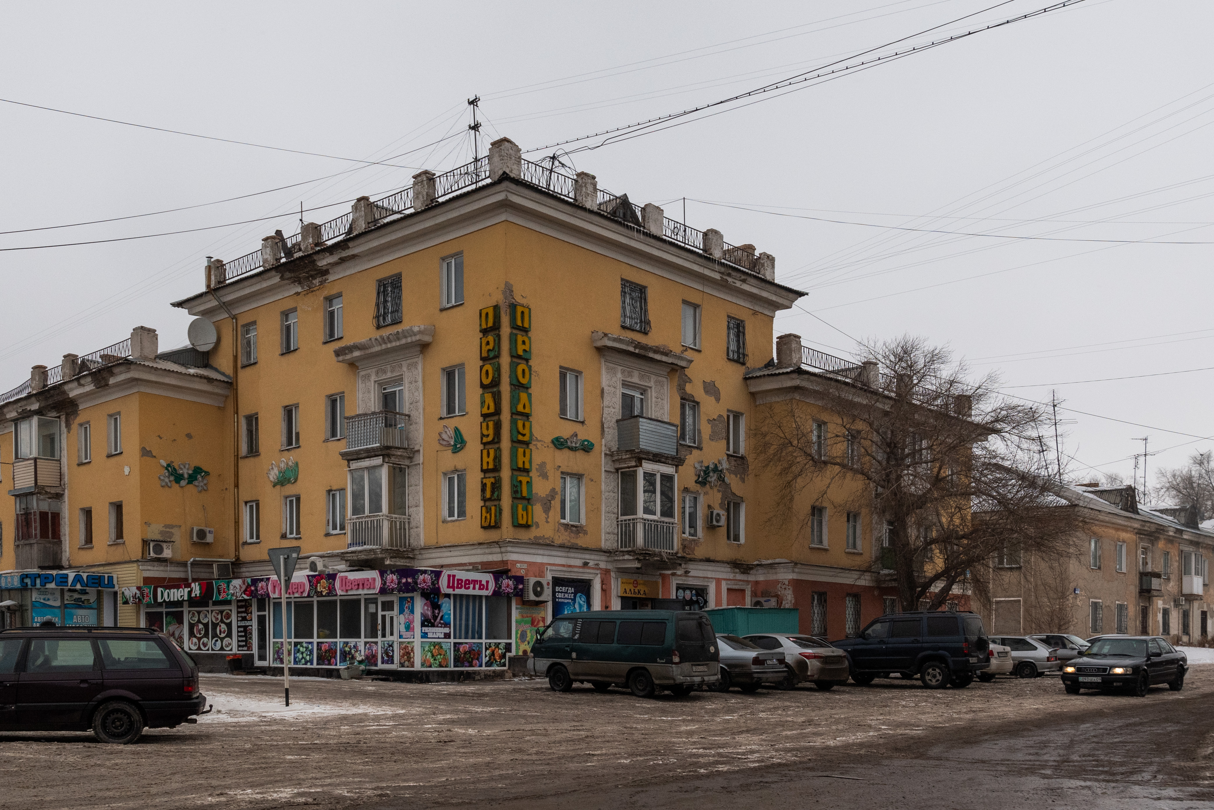 Karaganda, Kazakhstan